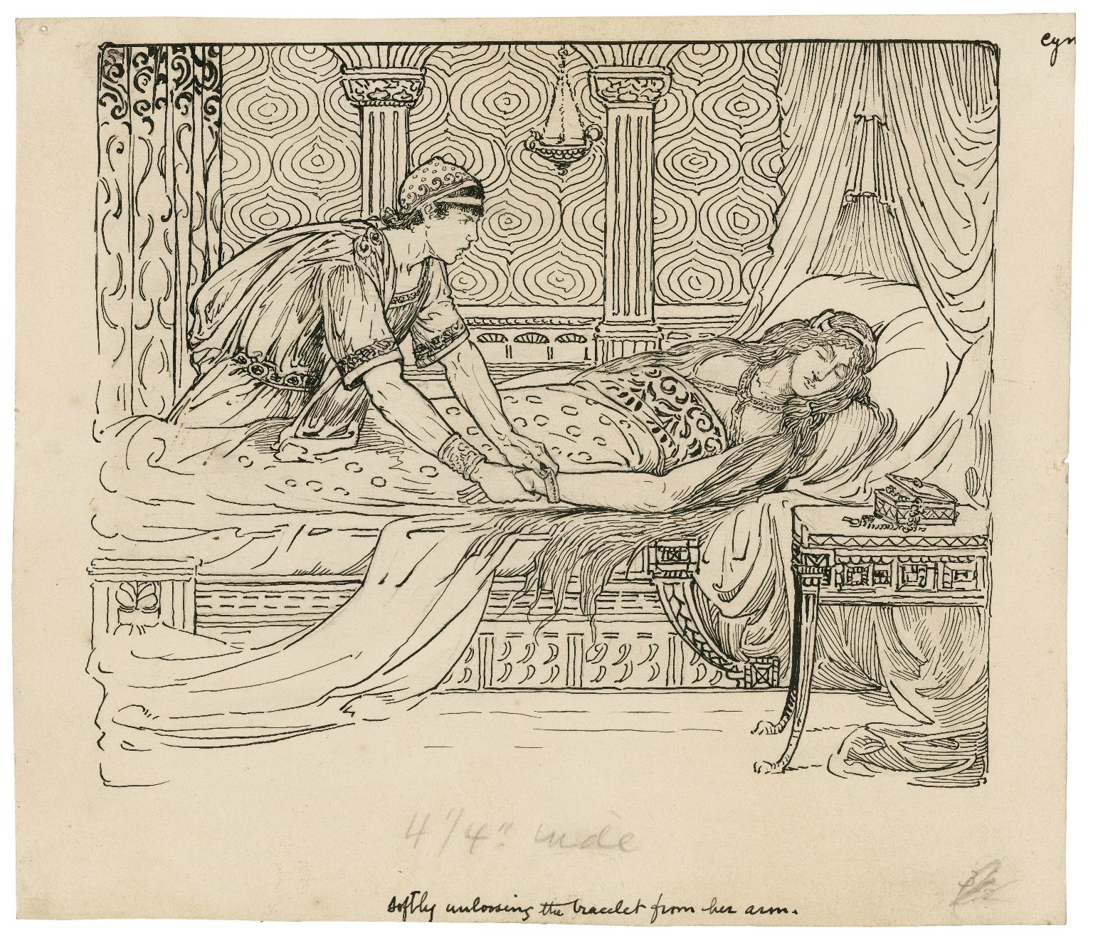 Drawing of Iachomo stealing Imogens bracelet, Act II Scene ii of Shakespeare's Cymbeline. Illustration was designed for an edition of Lamb's Tales, copyrighted 1918.